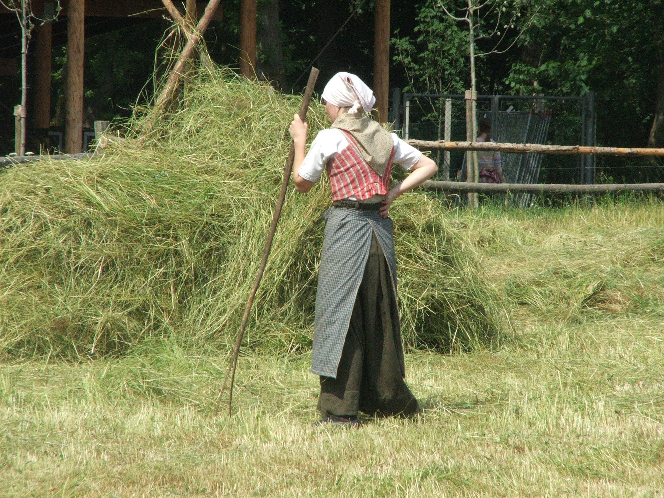 A worker in an open-air museum called "The Funen Village" or "Den Fynske Landsby" in Danish